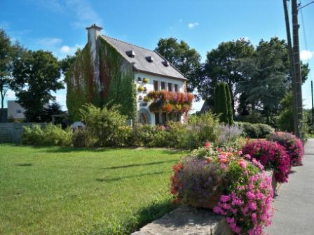 View of the town hall in La Harmoye 22320 France